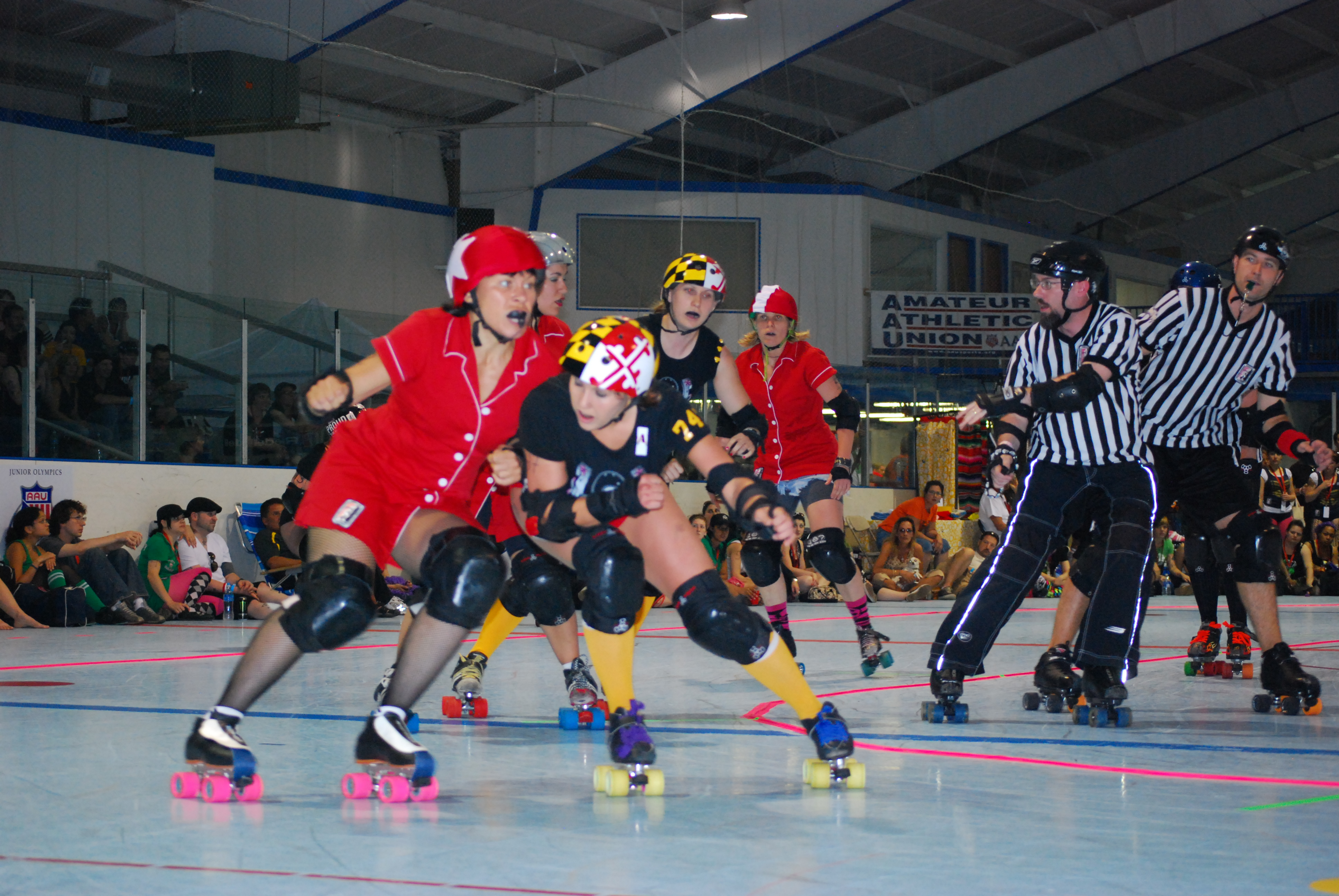 Then-Charm City All Star (Baltimore, MD) blocker Joy Collision vs. a Rhode Island Riveter (Providence, RI) jammer, fastest woman in Rhode Island, Hysterica!.